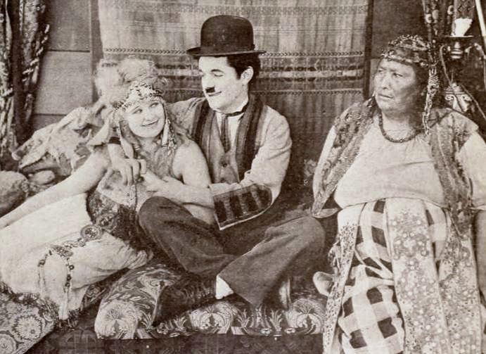 Still from the American comedy film The Slave (1917) with Billy West and two unidentified actresses, on page 37 of the December 22, 1917 Exhibitors Herald.